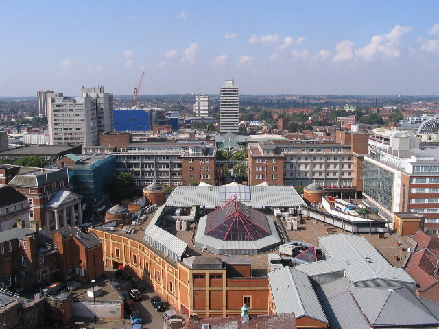 Broadgate and Precincts Taken from the tower of the old cathedral church of St. Michael, looking westwards down the line of the Upper and Lower Precinct shopping areas towards Mercia House[1], the tower block at the bottom end of the Lower Precinct. To the right of Mercia House is the red sandstone tower of St John's Church. To its left a little further into the distance is the Skydome and Odeon complex in Spon Street, partially obscured by the blue blob of Ikea. The grey tower block to the left is Coventry Point in Market Way. In the foreground is the roof of the Cathedral Lanes shopping centre swamping Broadgate. Left foreground is Pepper Lane, running towards High Street. To see how it looked in 1975, and 1983 : .